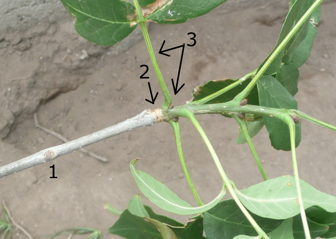 Rama de árbol de clima estacional en verano - cicatriz foliar, cicatrices de la yema apical en dormición, brote de este año, hojas (compuestas) y yemas - etiquetas